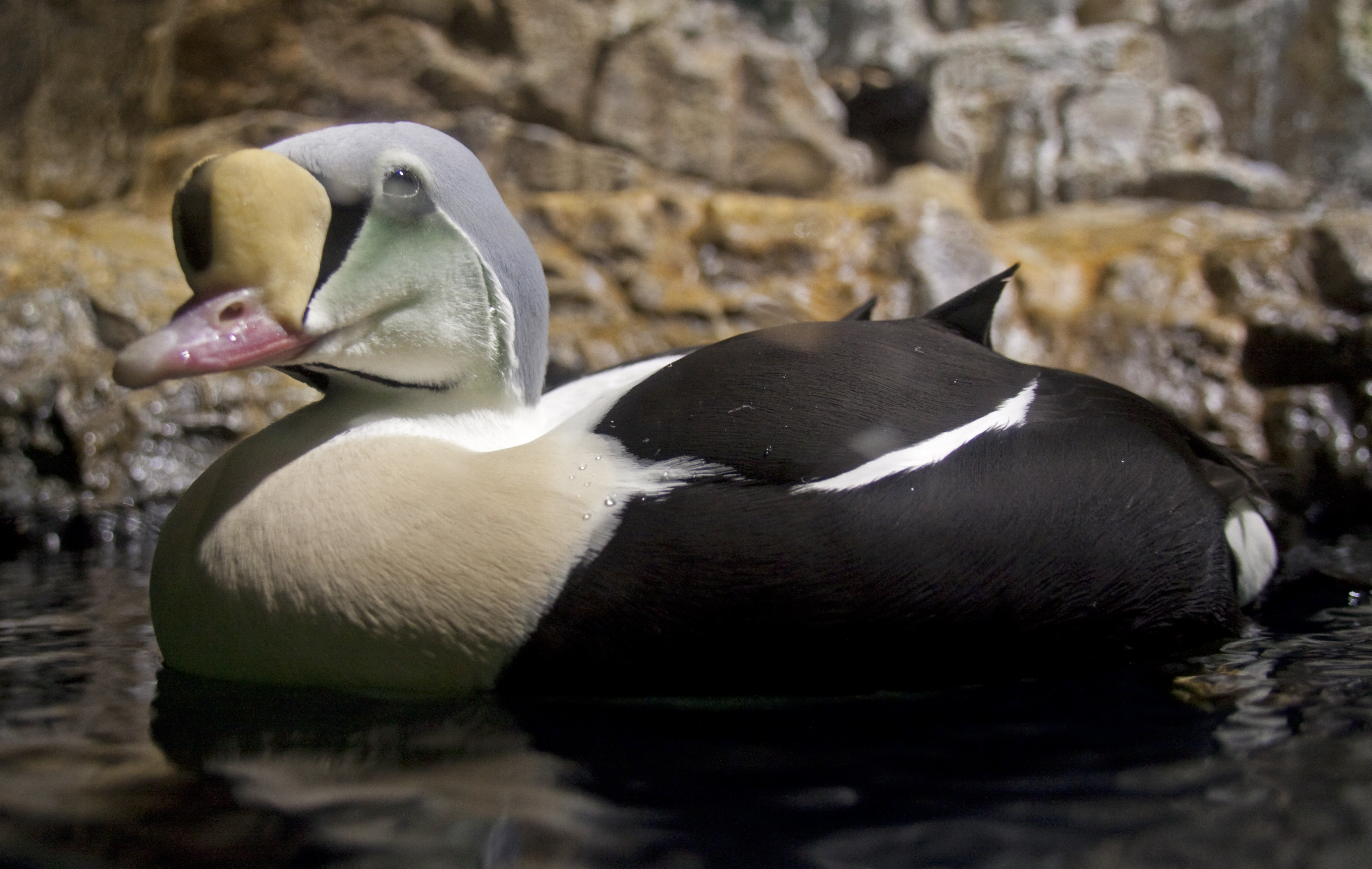 A male King Eider at Central Park Zoo, New York, USA.